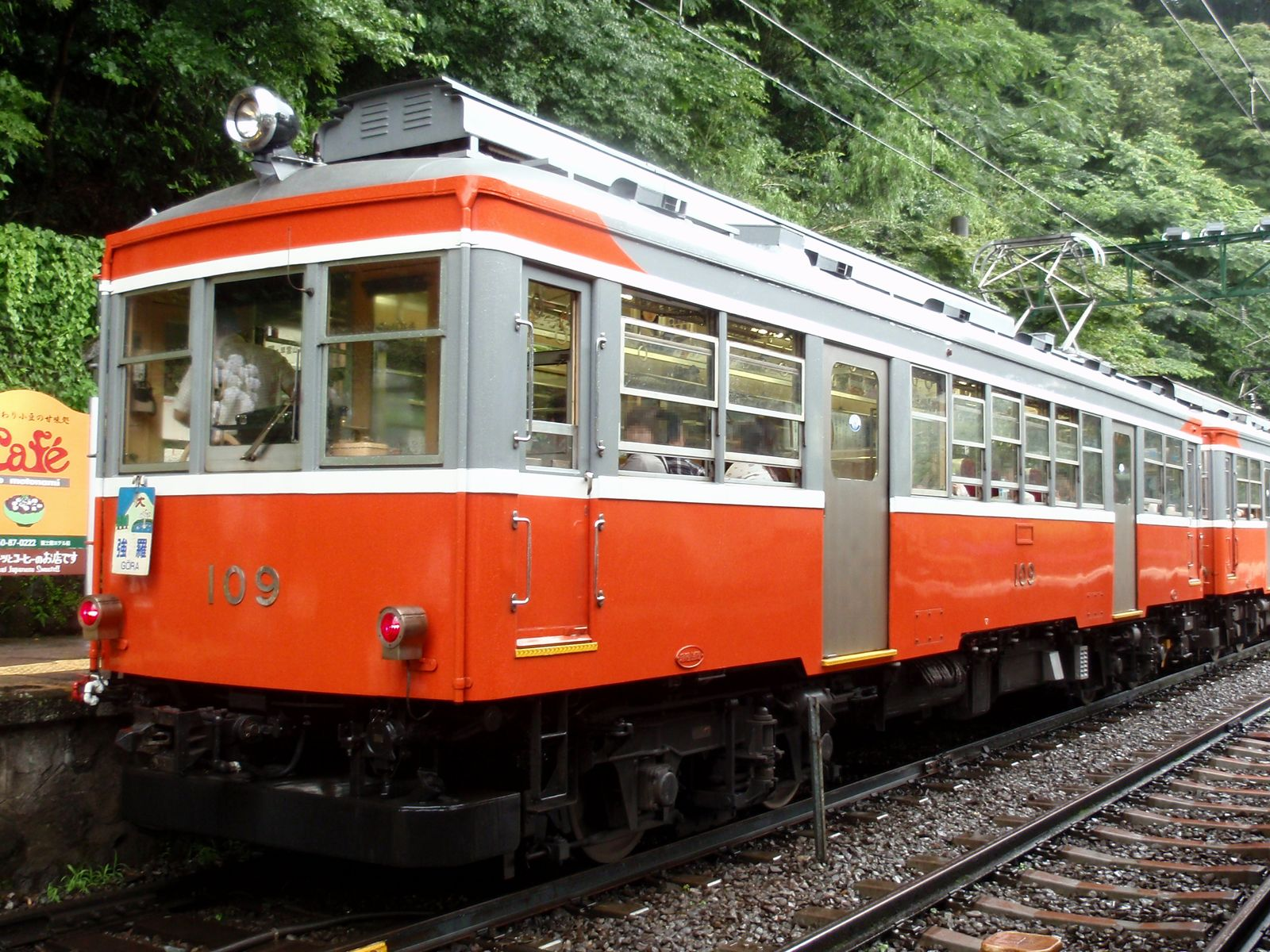 Hakone Tozan Railway Type 2 No.109.